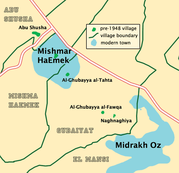 Historical depiction of Mishmar HaEmek region of Israel showing pre-1948 villages and village boundaries.